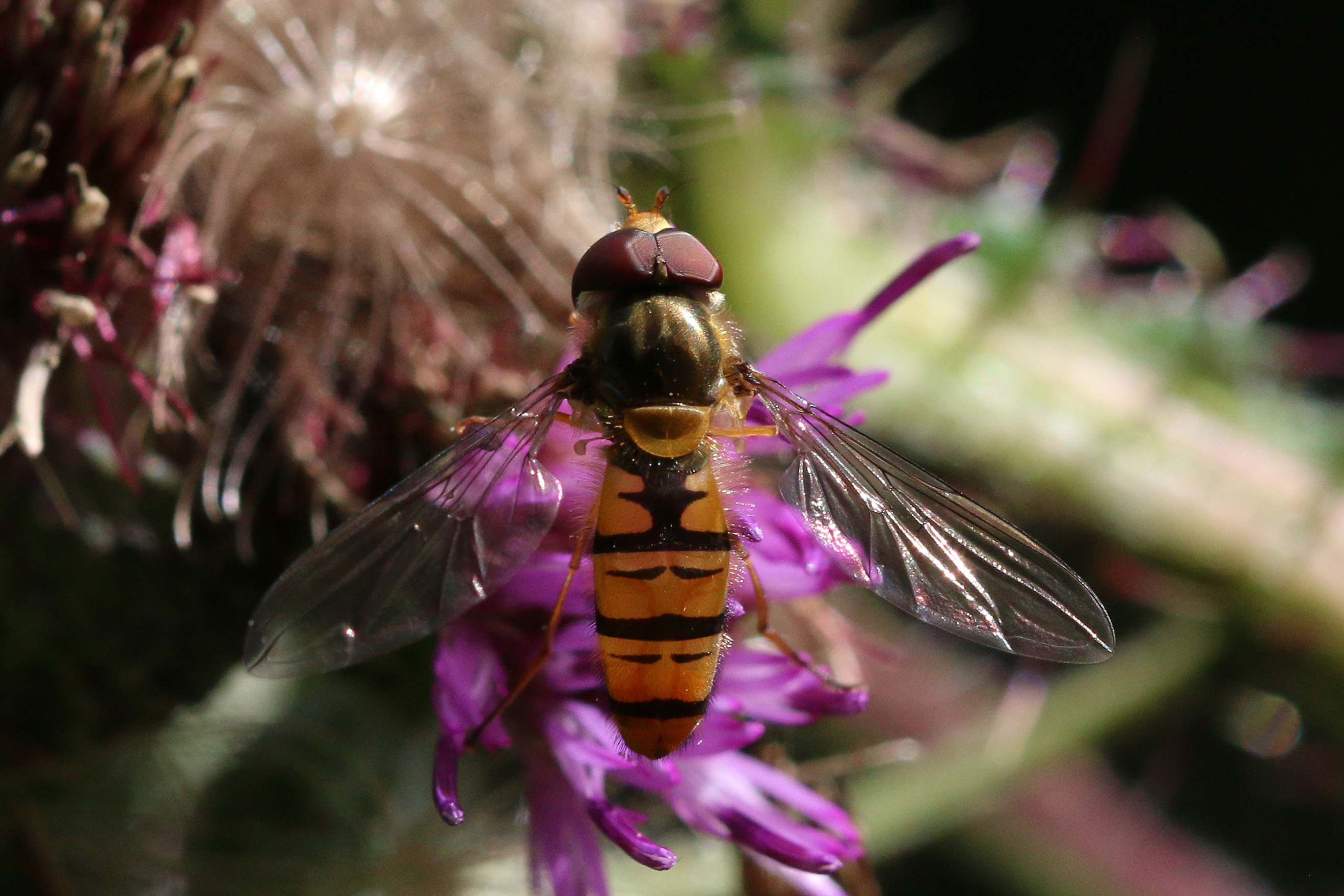 Marmalade hoverfly (Episyrphus balteatus) male, Whitecross Green Wood, Buckinghamshire